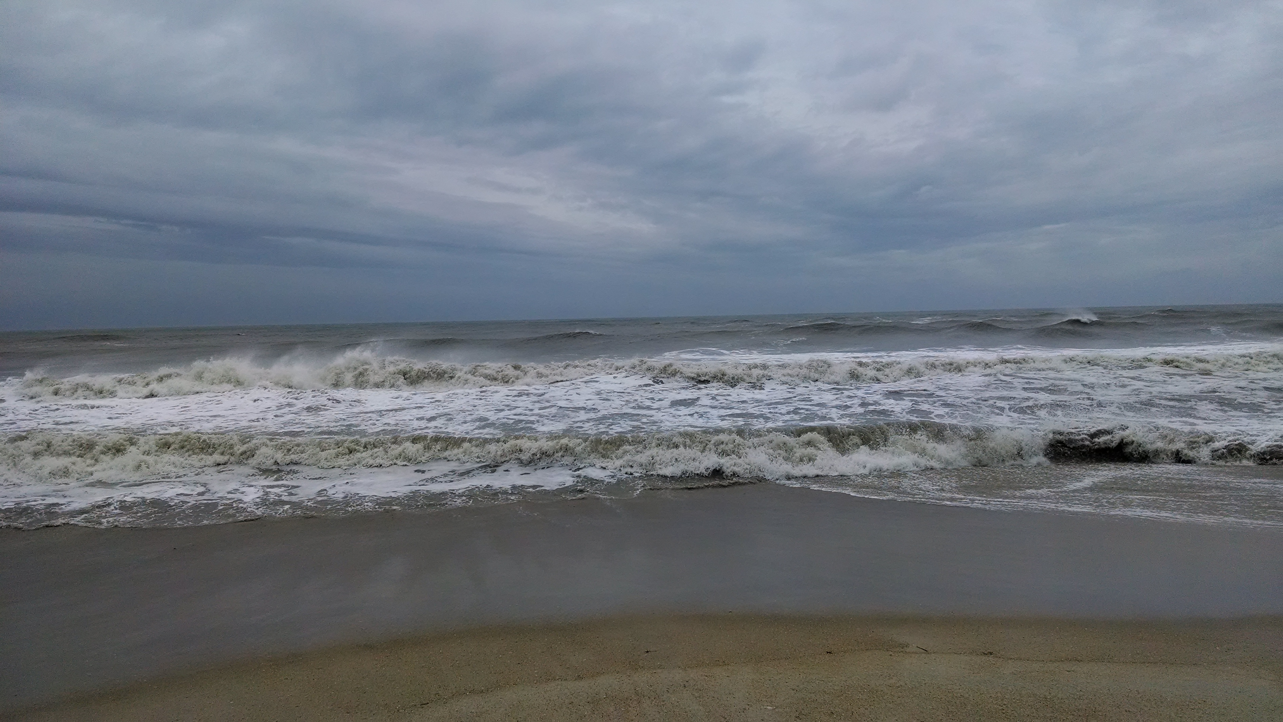 High waves on the beach of Assateague Island shortly after the passage of Hurricane Arthur